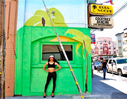 This is the alley way of Esta Noche bar